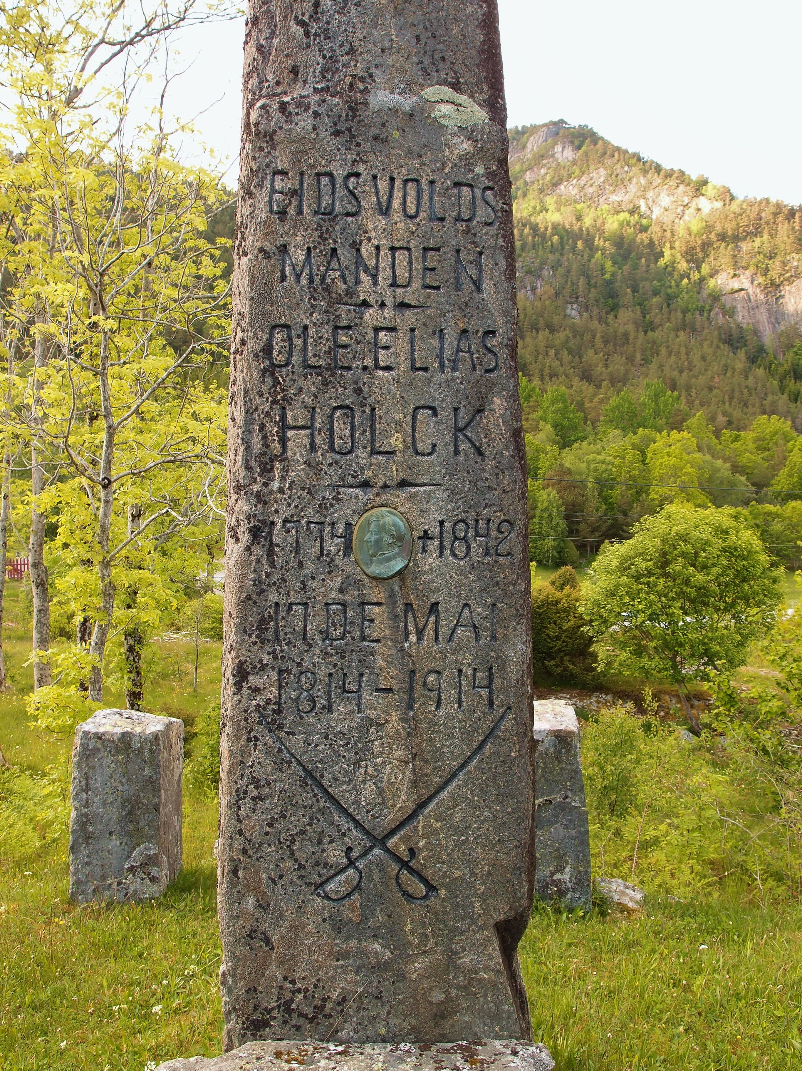 Memorial stone, erected 1914, in memory of Ole Elias Holck, Norwegian military officer and a member of the constitutional assembly at Eidsvold in 1814.